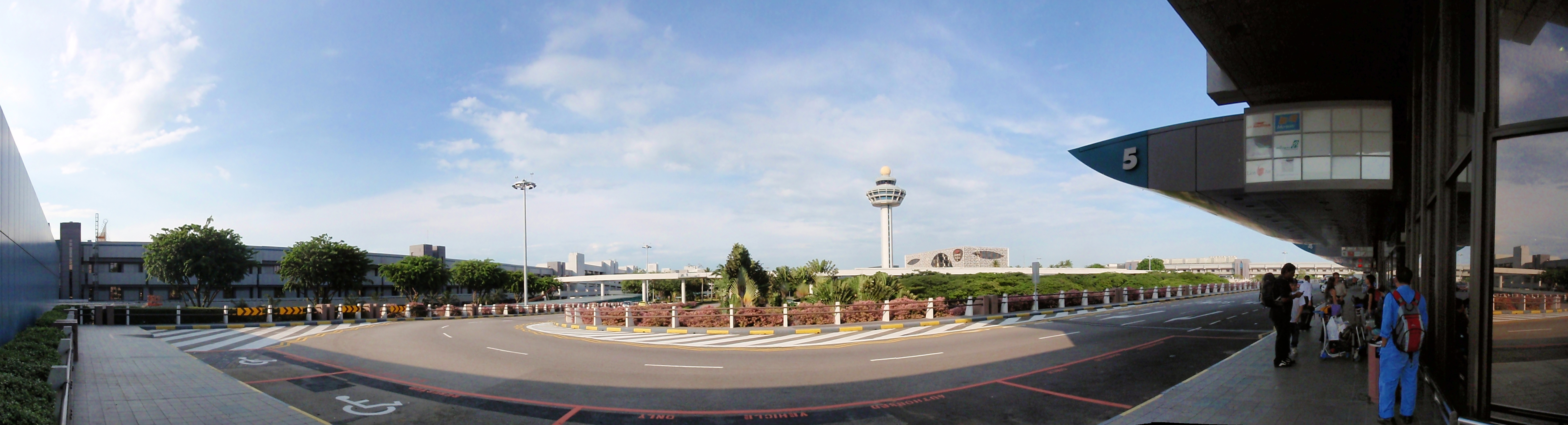 Author: Adhir Kirtikar Source: Images taken from my Olympus μ9000 and stitched into a Panaramic view using Microsoft Research Image Composite Editor. Subject: A Panaromic view from Changi Airport Terminal 1 - Gate 5.